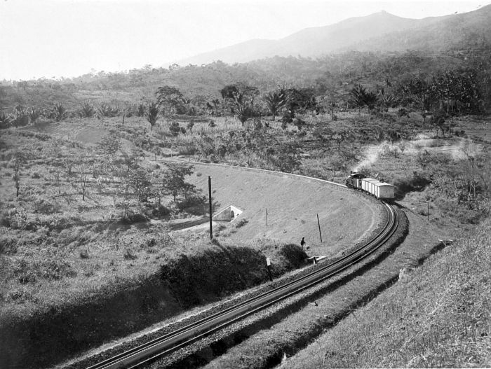 A part of the rack railway Magelang - Willem I, Central-Java